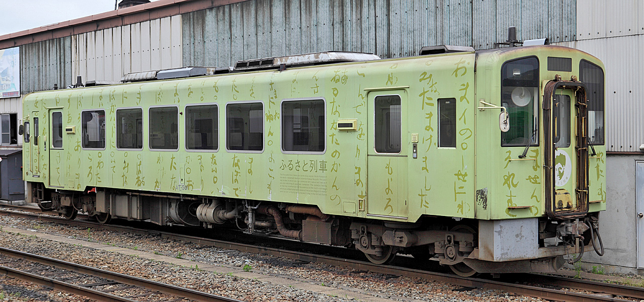 Aizu Railway Type AT-500 DMU (AT-501)